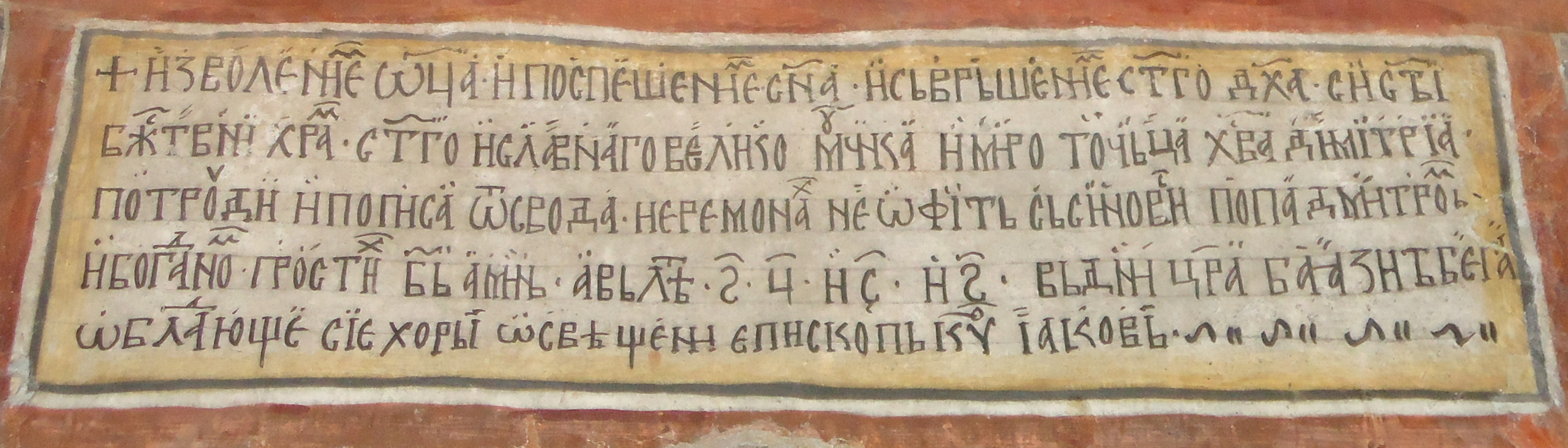 Church of St Demetrius, Boboshevo